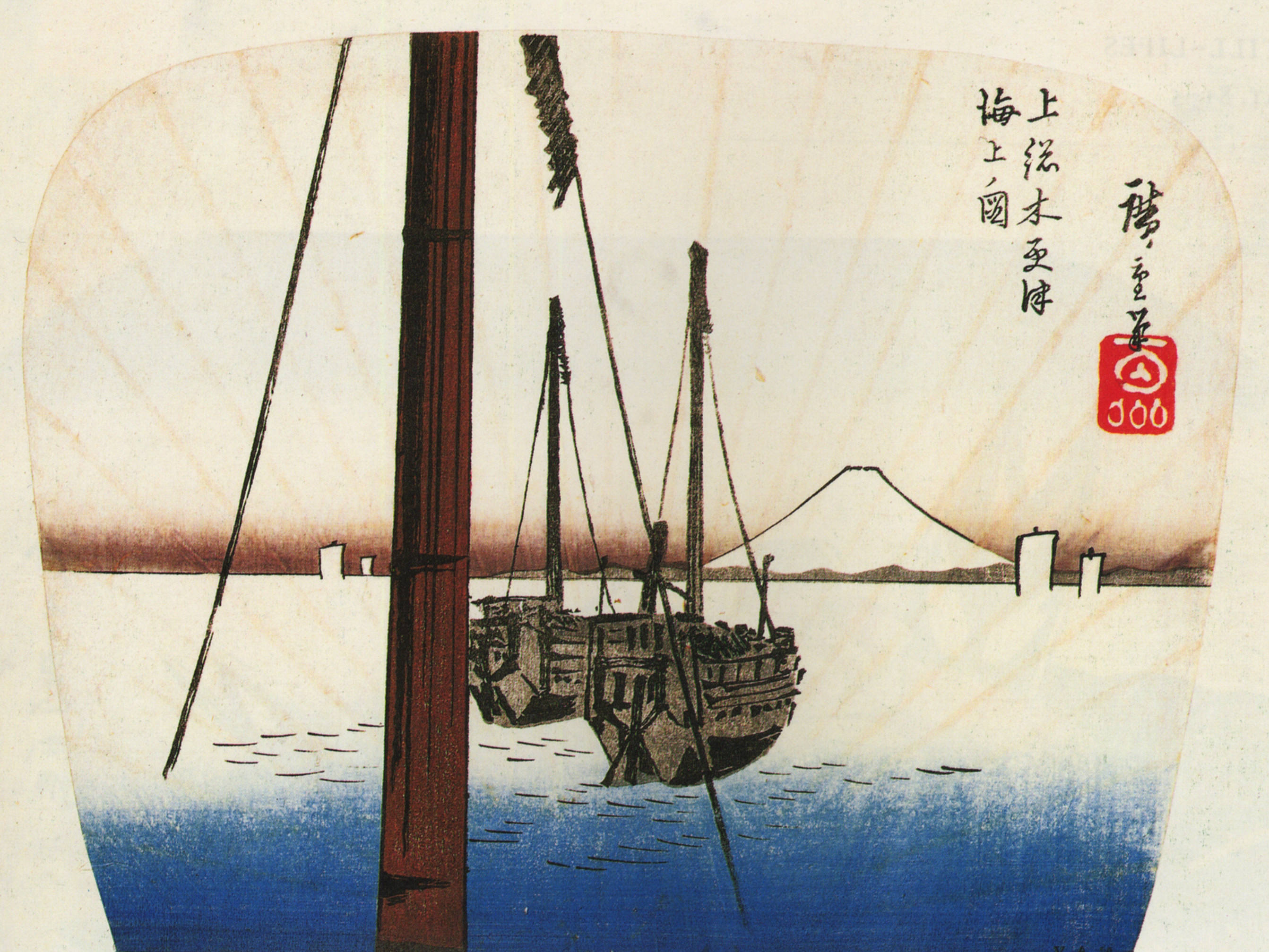 Japanese fan print of Mount Fuji as seen across the water from Kisarazu in Kazusa Province by Utagawa Hiroshige